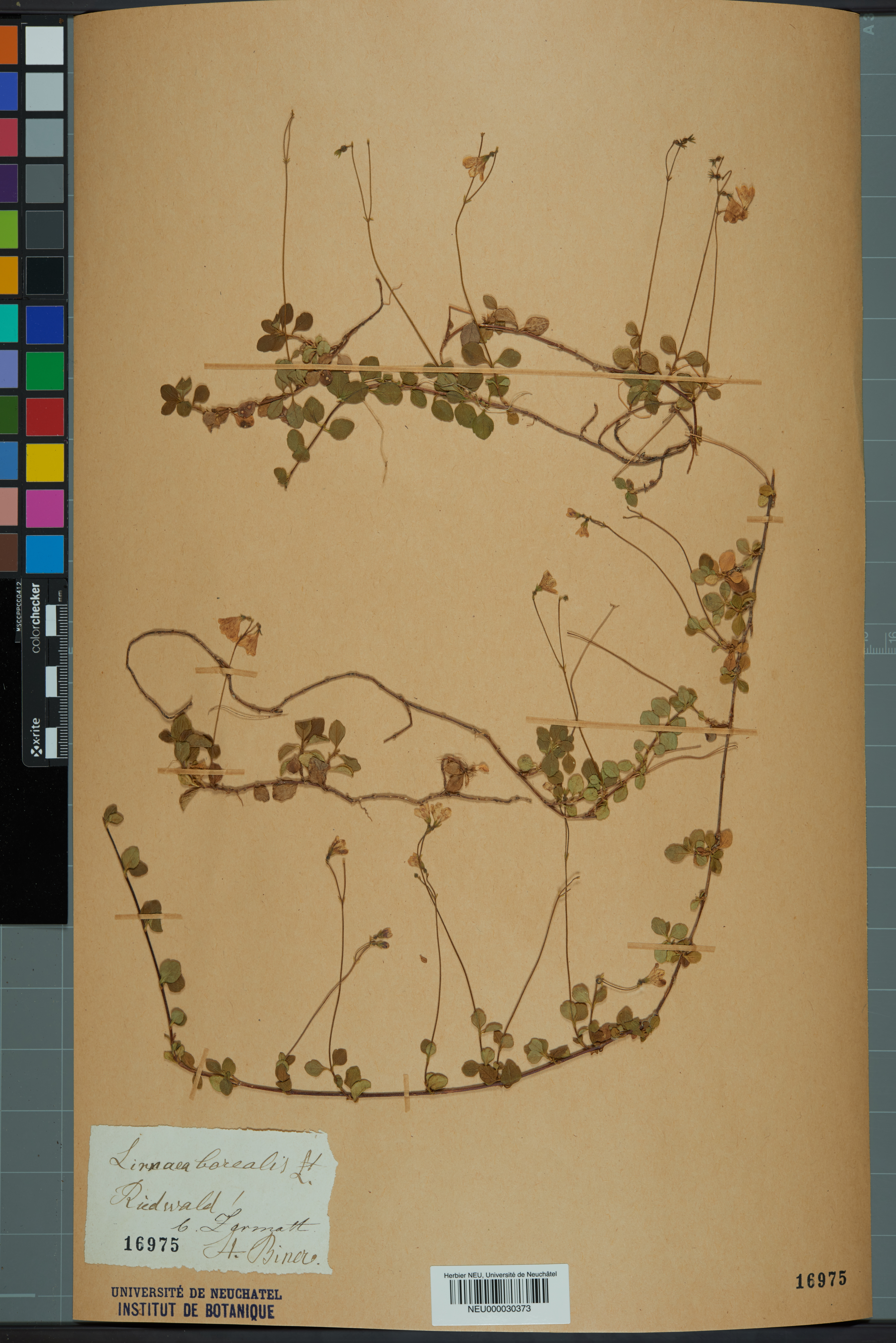 Dried pressed specimen of Linnaea borealis